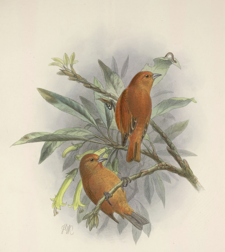 Loxops coccineus wolstenholmei (Original Description: (Loxops wolstenholmei), Rothsch.)